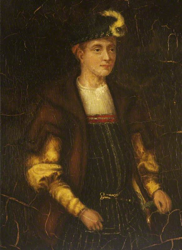 Called Guildford Dudley (husband of Lady Jane Grey).